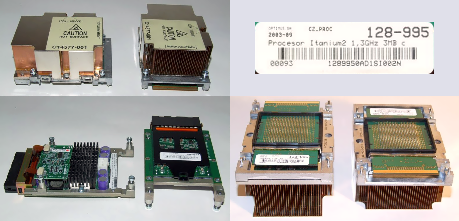 Intel Itanium 2 Processor 1.3GHz 3 MB Cache